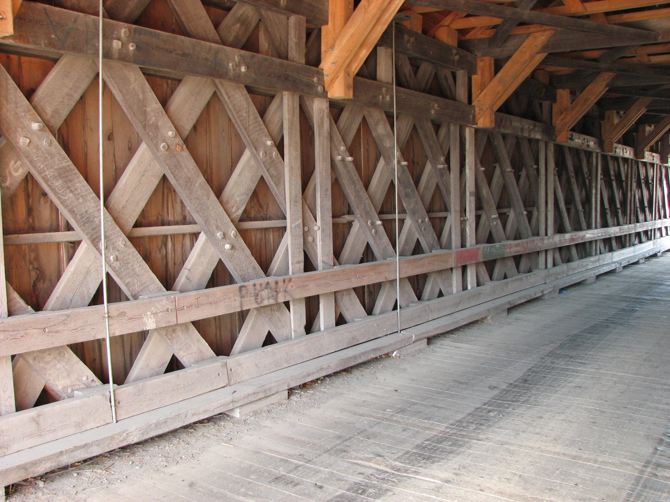 Freeport bridge, Cowansville, QC - Inside view